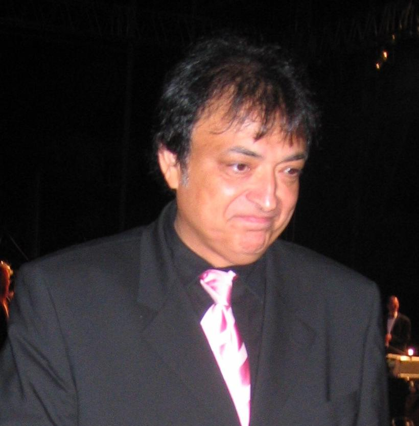 Oto Pestner, Slovenian pop siger (member and leader of New Swing Quartett) photo:Ziga 12:17, 17 August 2006 (UTC)